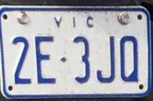 Victoria Motorcycle general issue licence plate 2E 3JQ